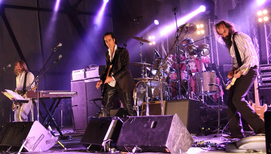 Grinderman performing live in Athens, Greece.